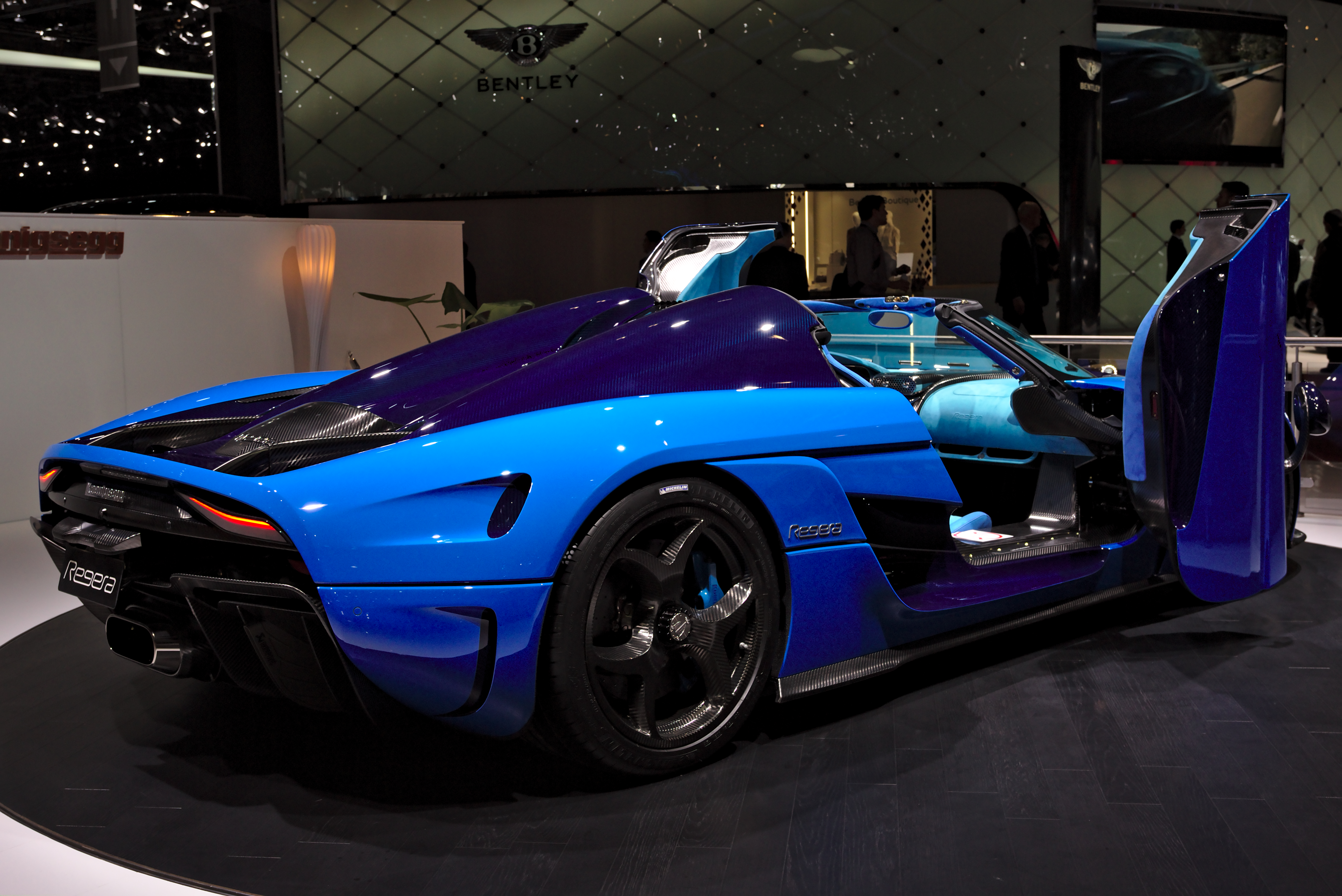 Koenigsegg Regera at Geneva Motorshow 2018